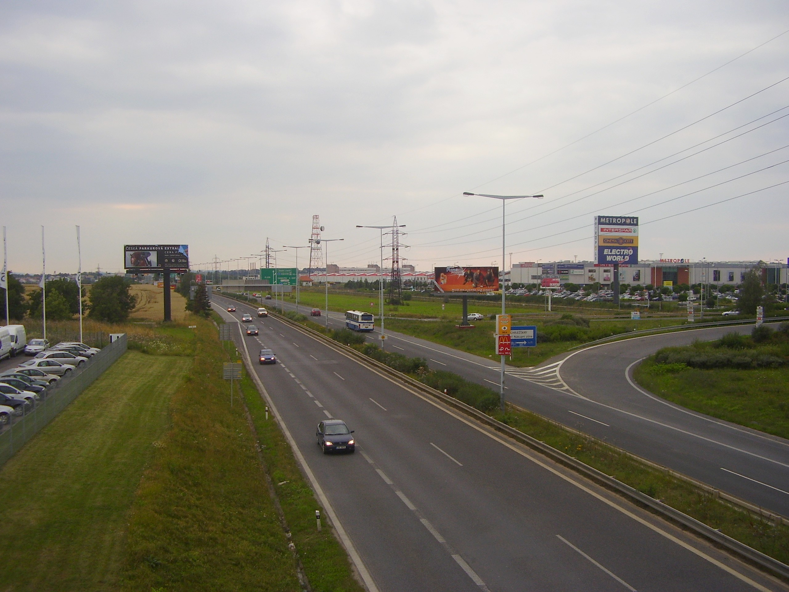 Highway D5 in Prague, Zličín in way to Plzeň